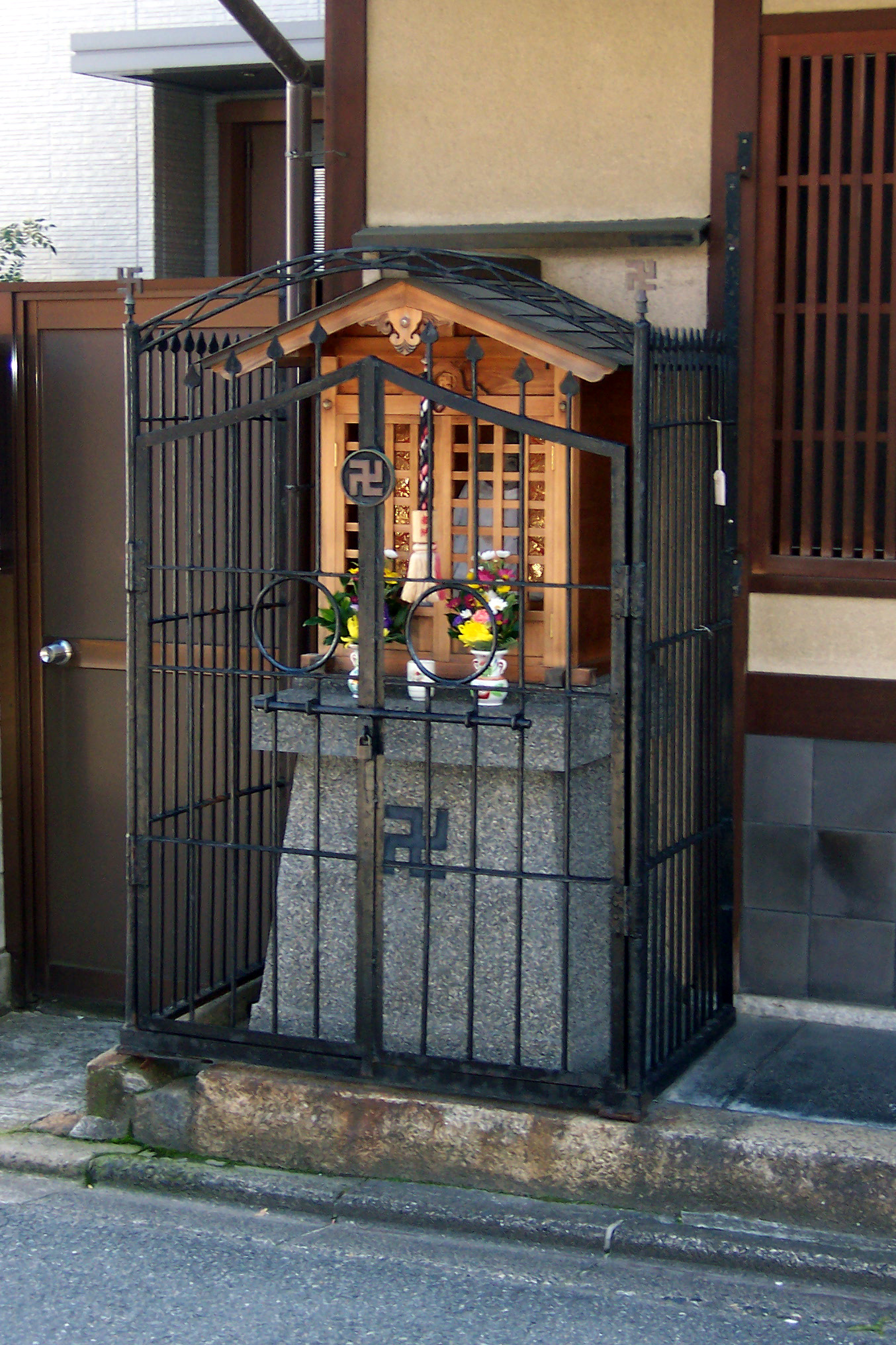 Neighborhood shrine in KyotoNeighborhood shrine